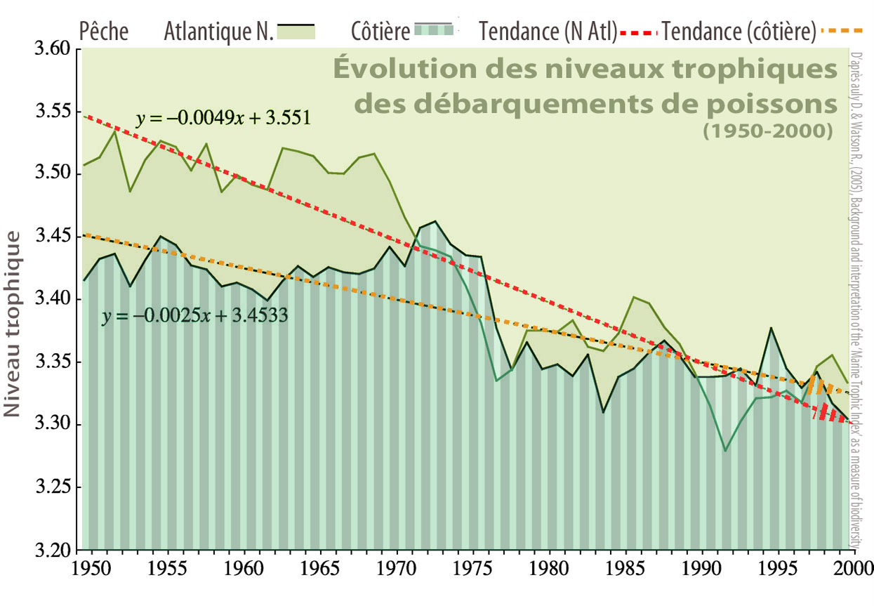 Trends in mean trophic levels of fisheries landings (for 1950–2000 period), based on aggregation of data from over 180 000 half-degree latitude/longitude cells (based on spatial disaggregation method of Watson et al. (2004)). Observed and fitted data are represented by solid and dashed lines respectively. Note: strong decline, particularly in the North Atlantic. From Pauly D. and Watson R., (2005), « Background and interpretation of the ‘Marine Trophic Index’ as a measure of biodiversity », Philosophical Transactions of the Royal Society B., n°360, pp. 415-423.